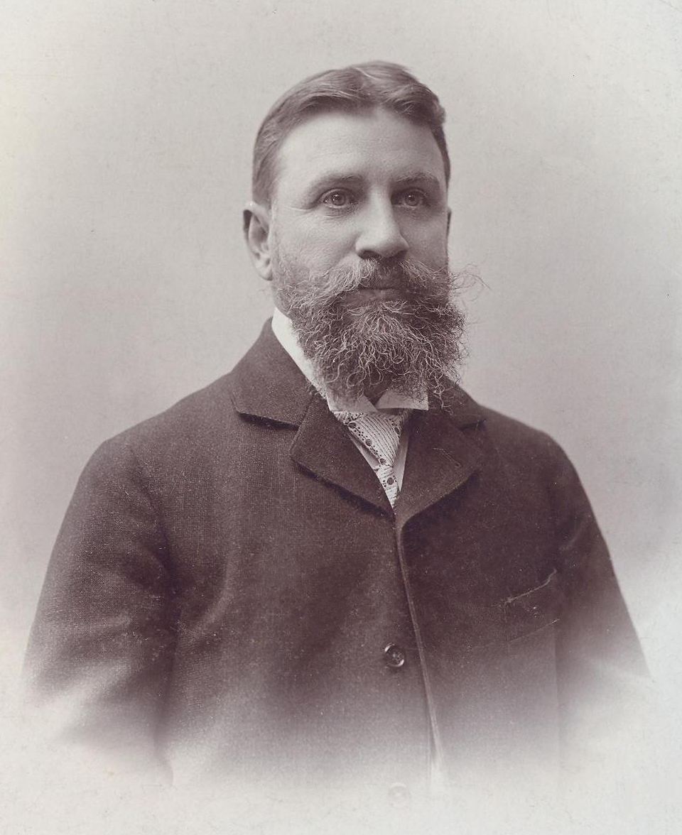 Vasil Radoslavov